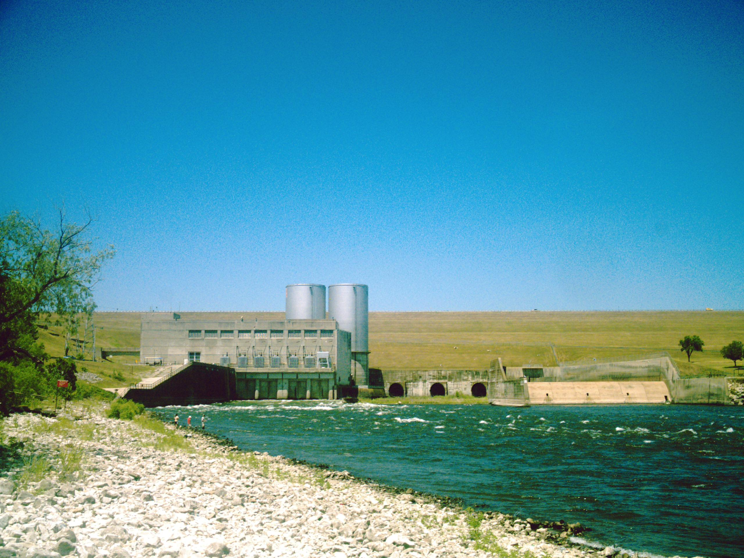 A picture of the Denison Dam and hydroelectric power plant.